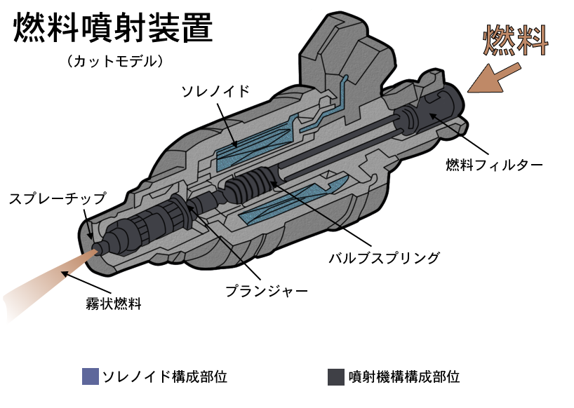 Cut away diagram of a fairly basic fuel injector for the fuel injection article